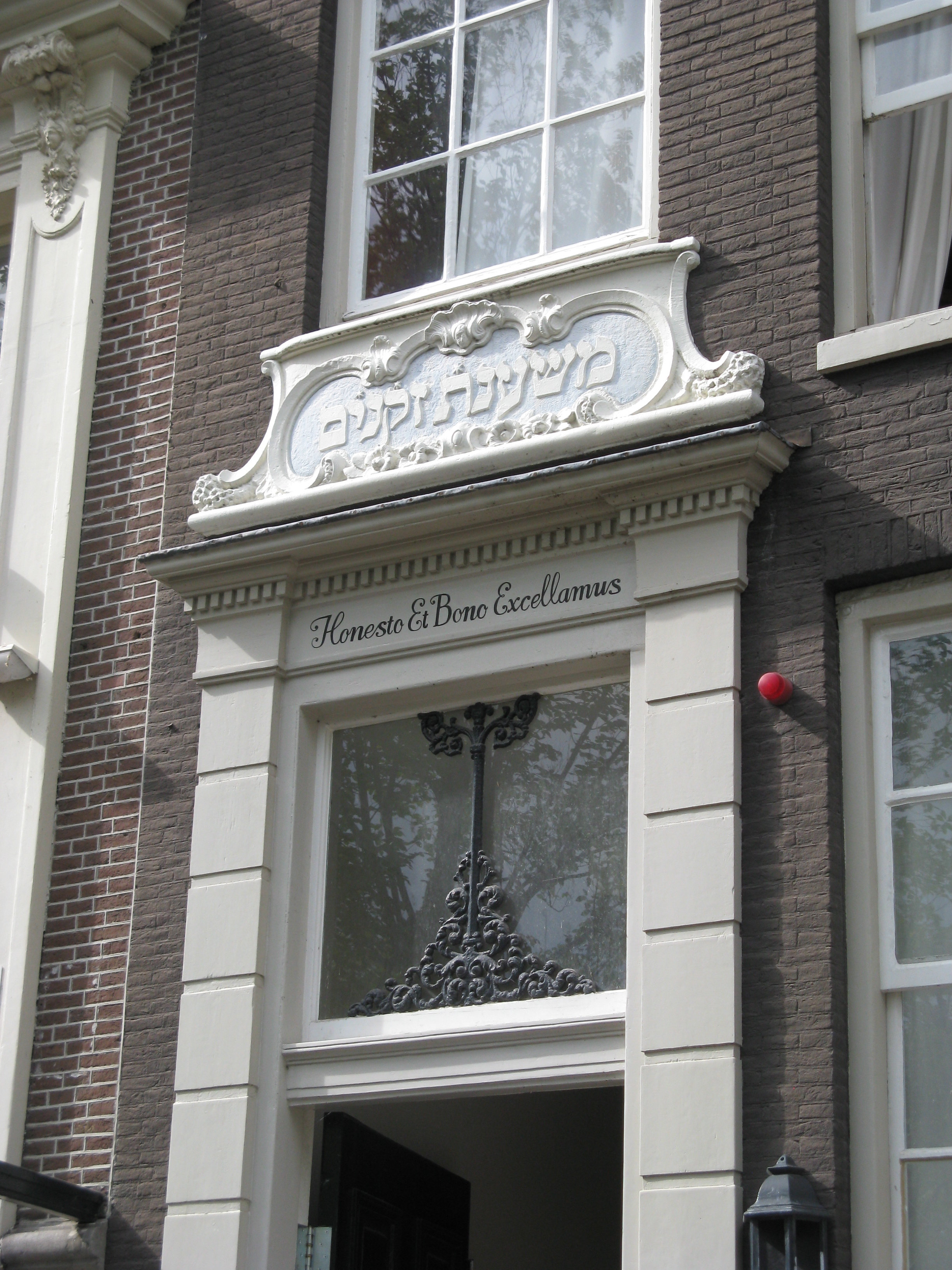 Buildings in Amsterdam - Nieuwe Herengracht 33 .